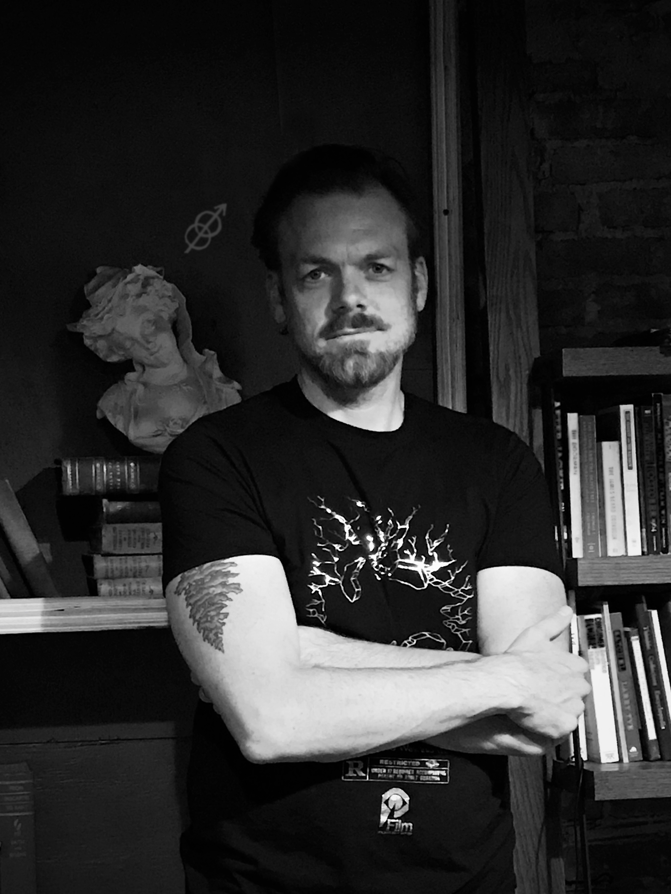 Photo by SarahNicole Mahoney of Dennis Mahoney, author of the novels Ghostlove, Bell Weather, and Fellow Mortals.